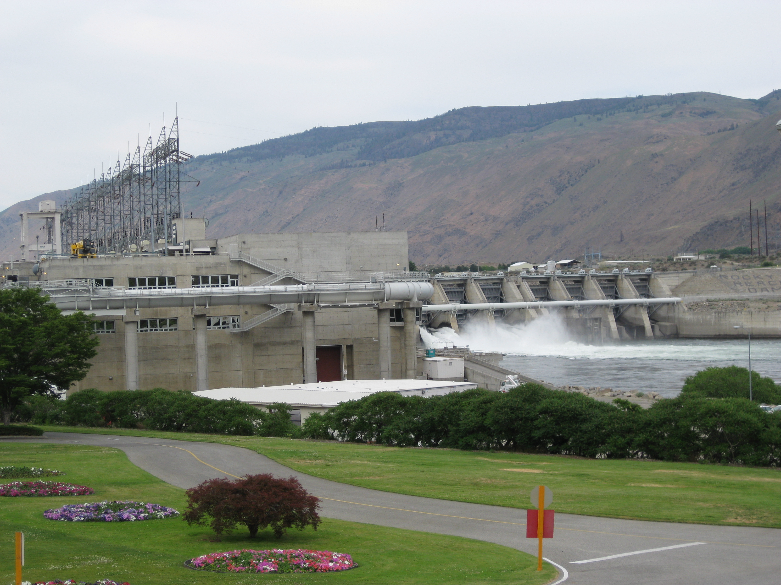 Rocky Reach Dam, a hydroelectric facility that includes a very landscaped park.